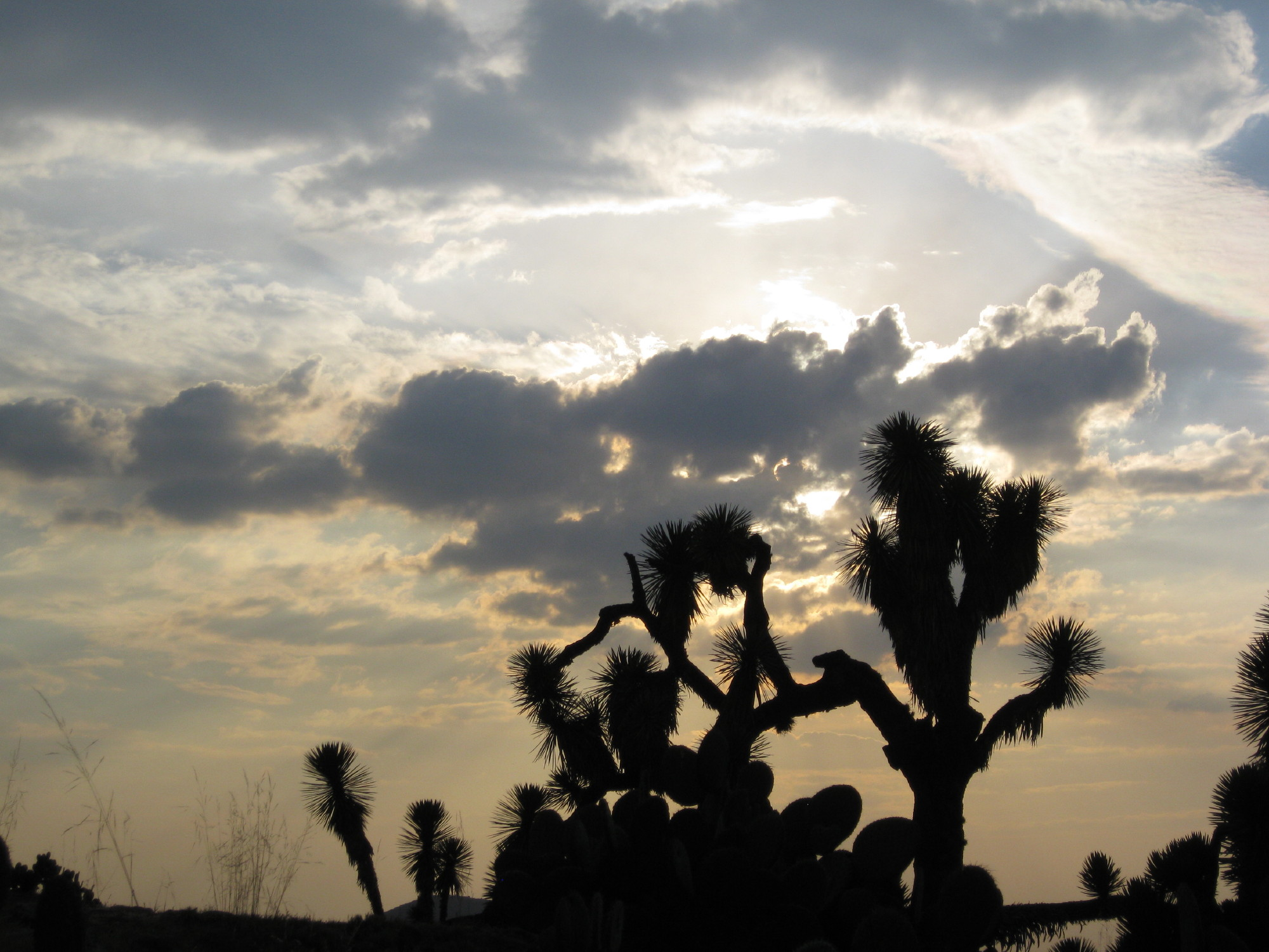 Nature near Xihuingo.